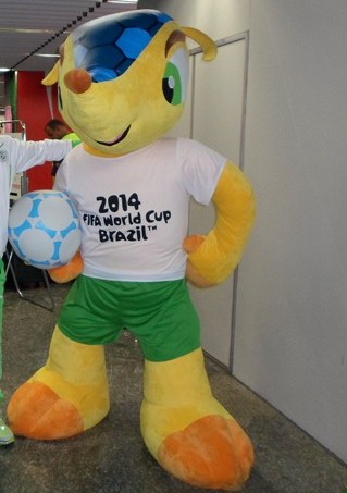 Fuleco the Armadillo, the official World Cup mascot, was on hand at the airport to welcome fans and players. فويلكو، الشعار الرسمي لكأس العالم، كان في الانتظار في المطار لاستقبال المشجعين واللاعبين. Fuleco l'Armadillo, la mascotte officielle de ce Mondial, était à l'aéroport pour accueillir les supporters et les joueurs.